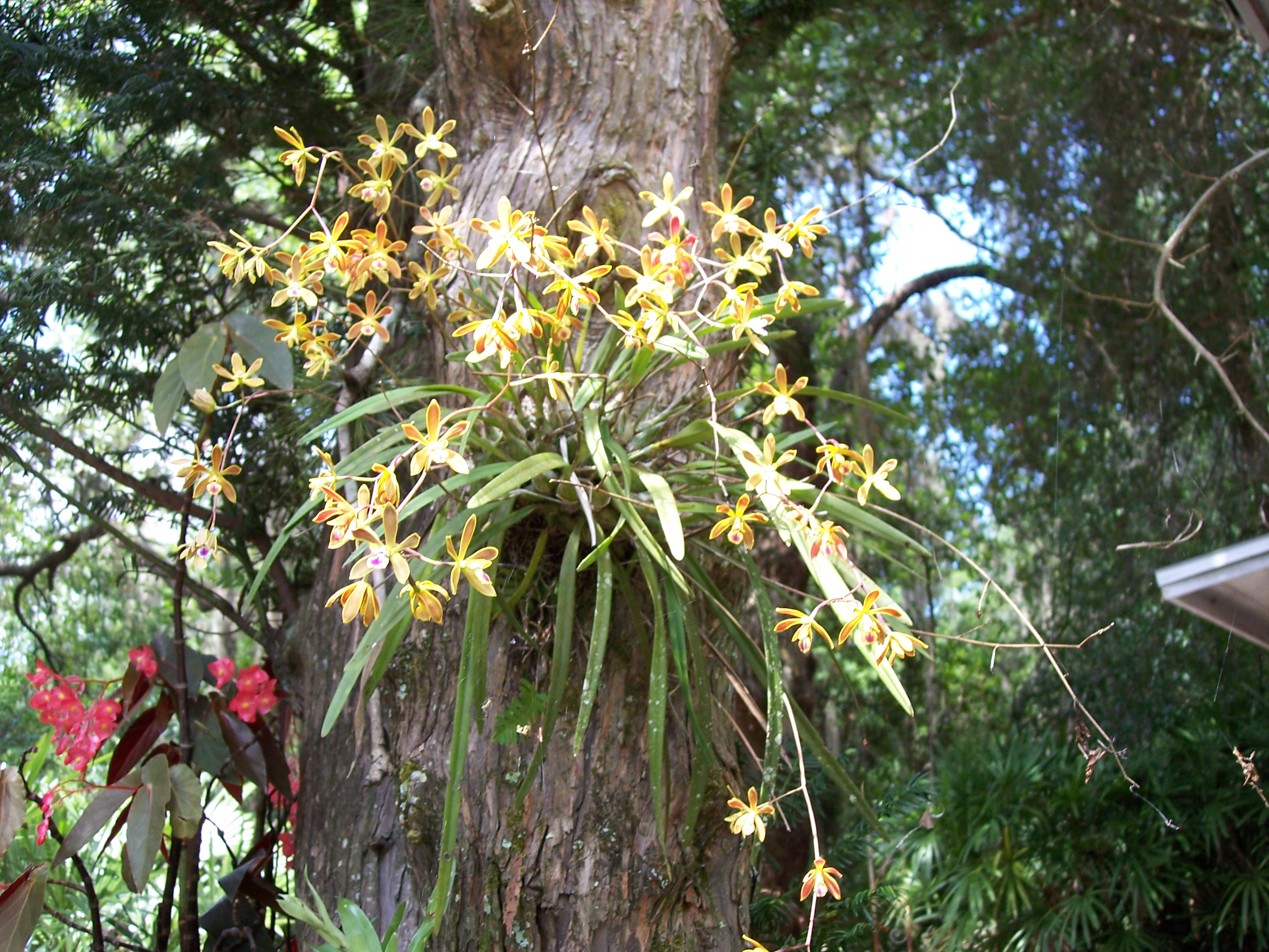 Flowering Encyclia tampensis.